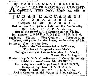 Lombardini Sirmen Programme Covent Garden 11 March 1772